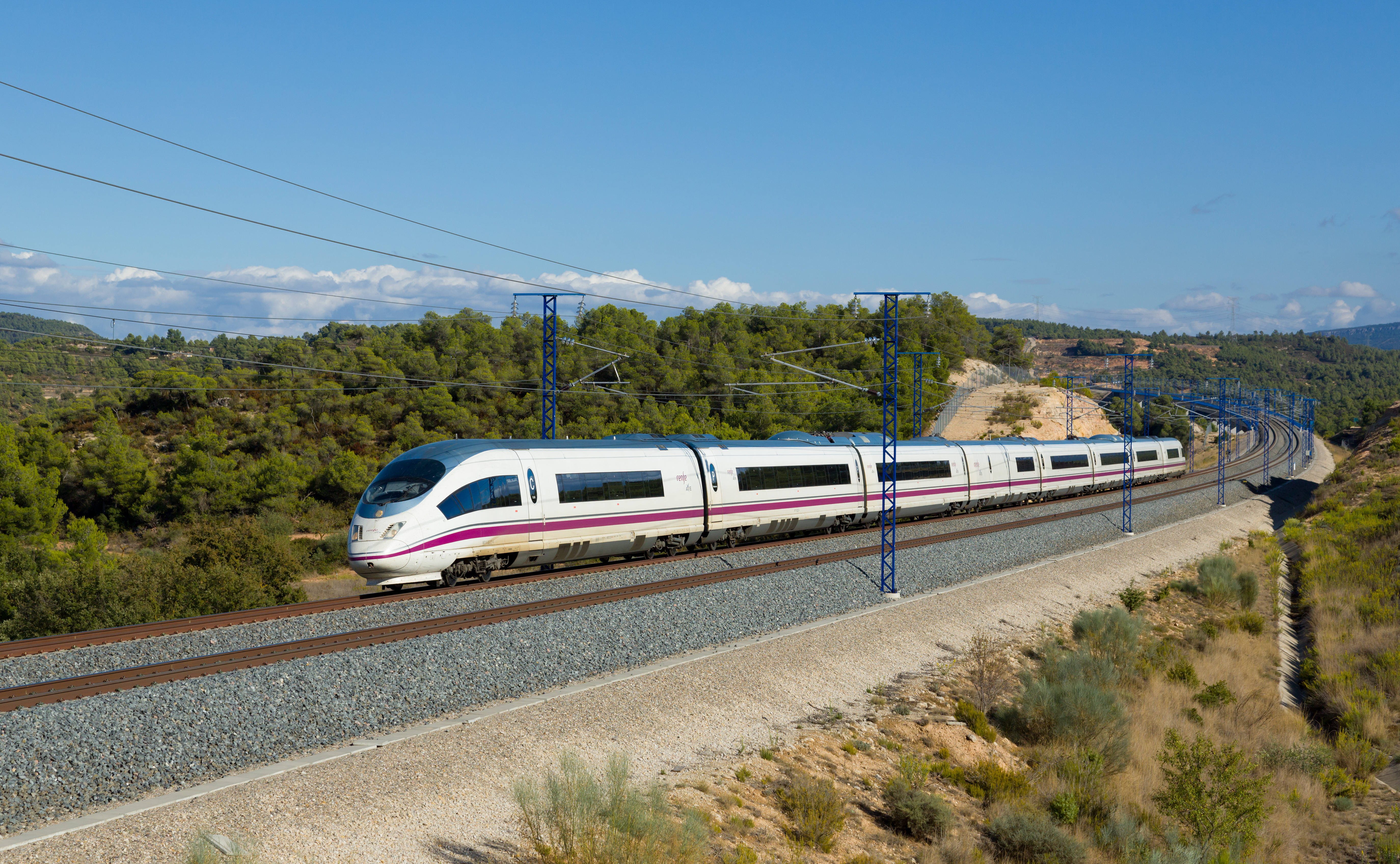 RENFE's AVE 394 Barcelona - Sevilla passes us at about 300 km/h on the LAV (Línea de alta velocidad) Barcelona - Madrid. Picture taken near Vinaixa, Spain.